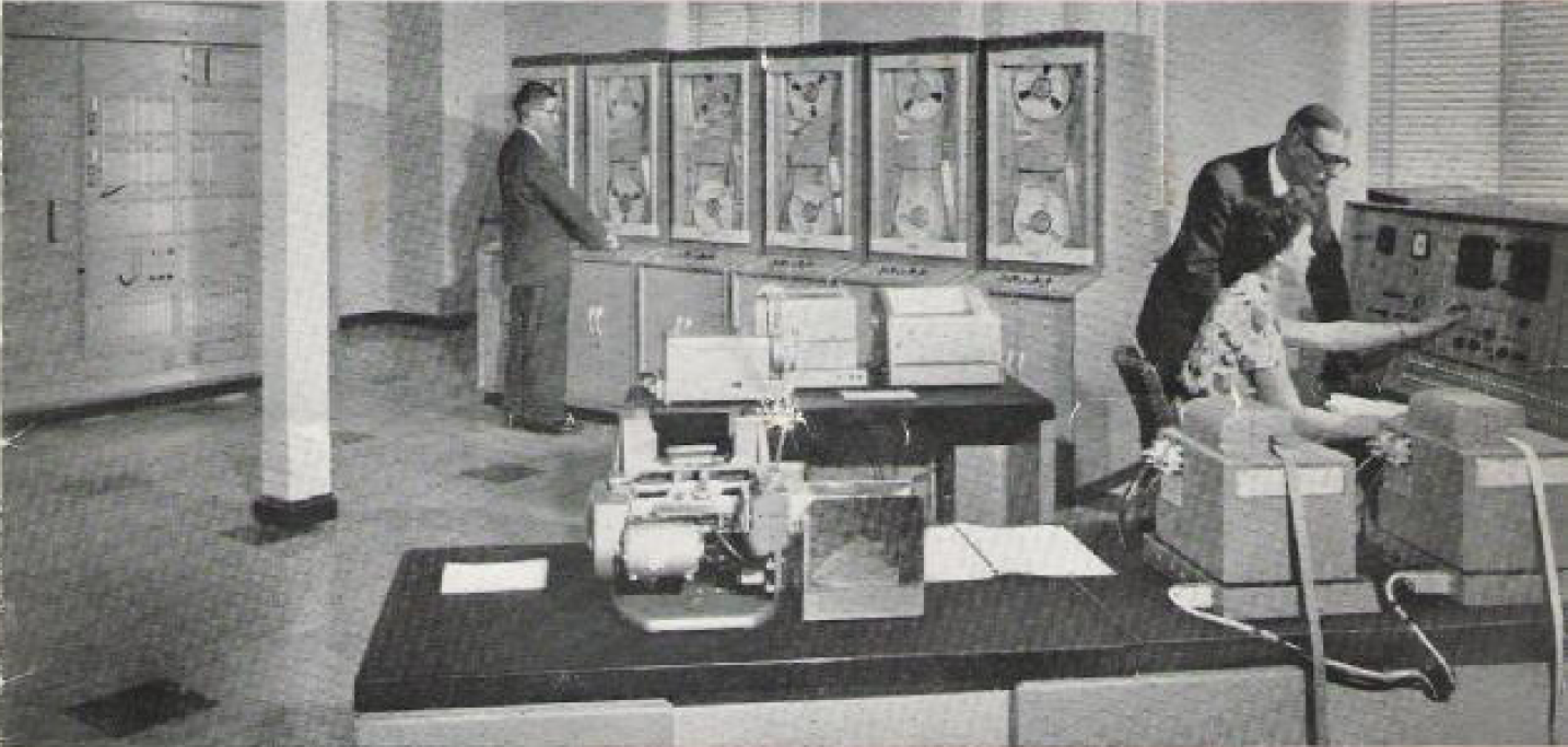 EMIDEC 1100 - early UK computer at Boots Offices, Nottingham